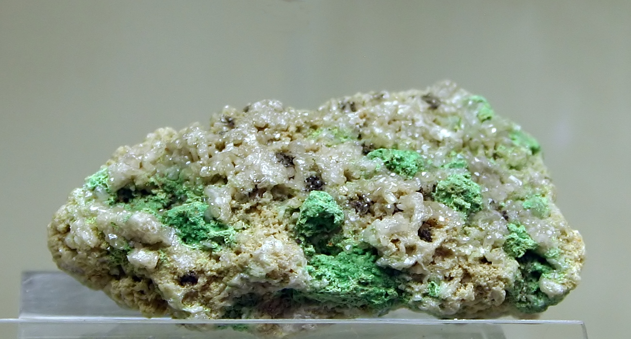 Caledonite (green) on Cerussite - Locality: Tsumeb, Southwest Africa - Exposed in the Mineralogical Museum, Bonn, Germany